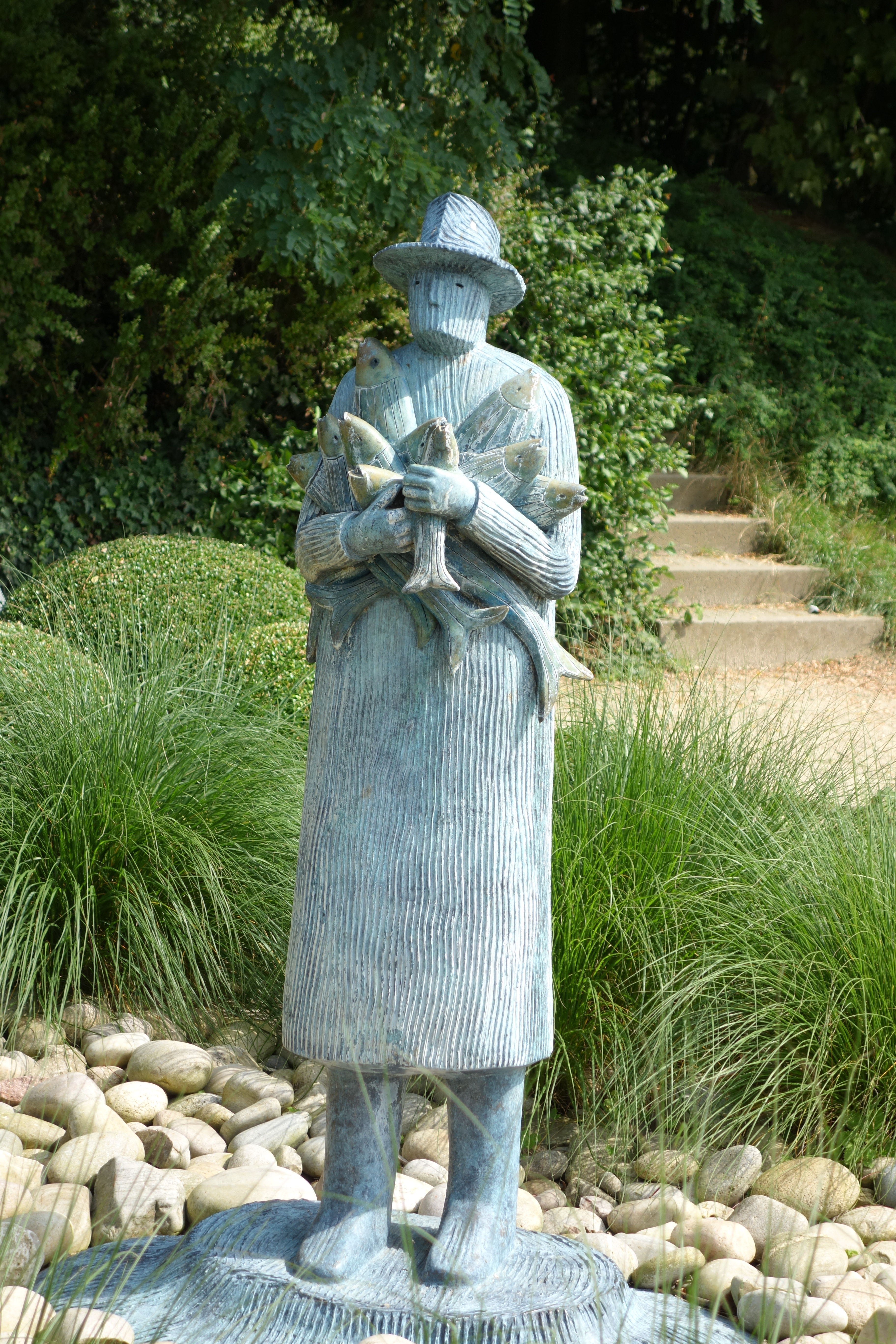 Fontaine aux poissons (Pêche miraculeuse) by Jean-Michel Folon. (Fish fountain (Miraculous catch of fish), copy with water spouting fish at the Metropolitan Museum of Art, New York.)